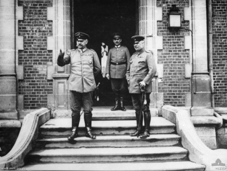 WESTERN EUROPEAN FRONT, 1918-05. SENIOR GERMAN ARMY OFFICERS FIELD MARSHAL P. VON HINDENBURG AND GENERAL LUDENDORFF ON THE STEPS OF A BUILDING CLOSE TO THE FRONT.